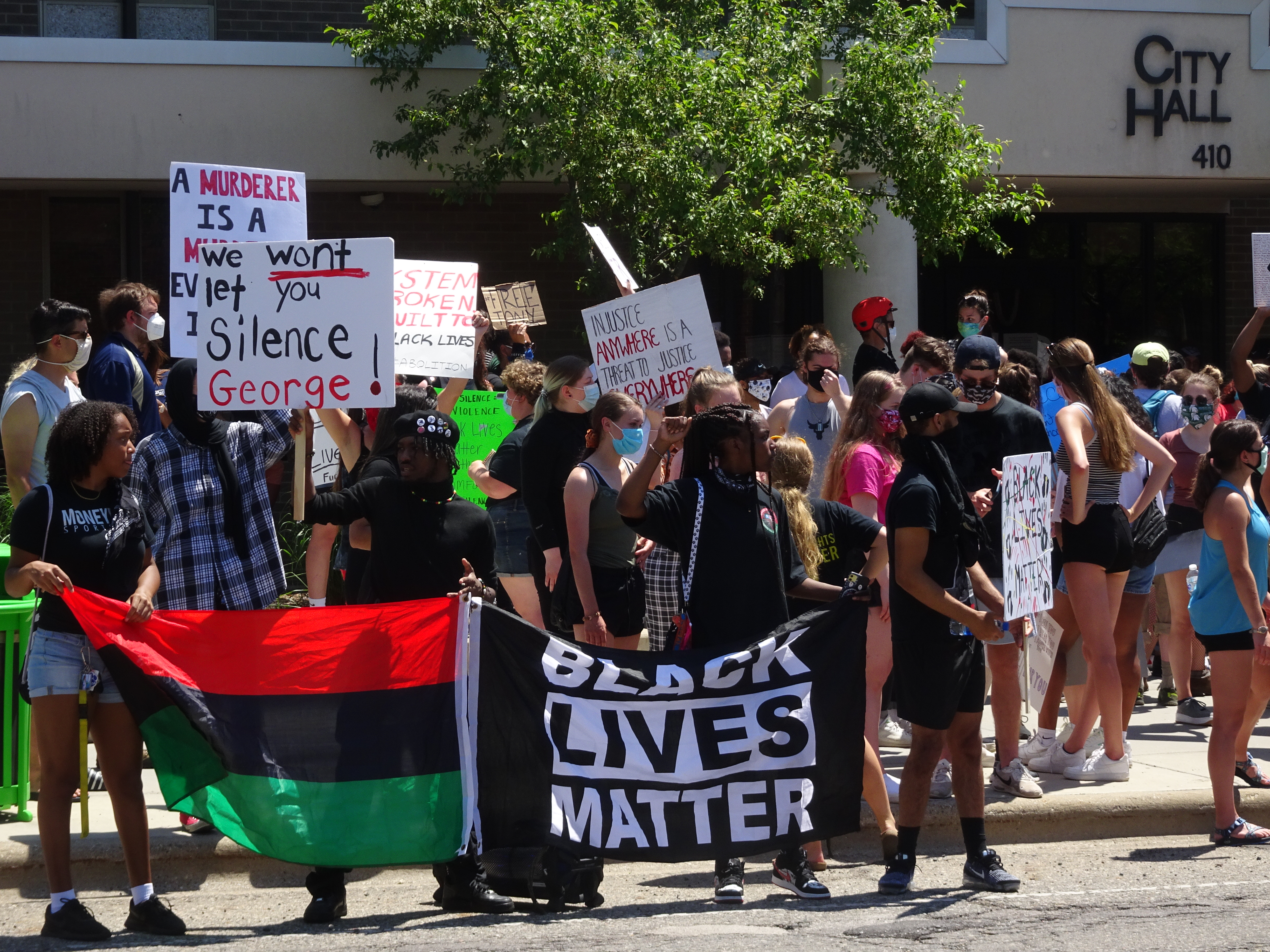 A portion of the crowd at the George Floyd protests in East Lansing, Michigan